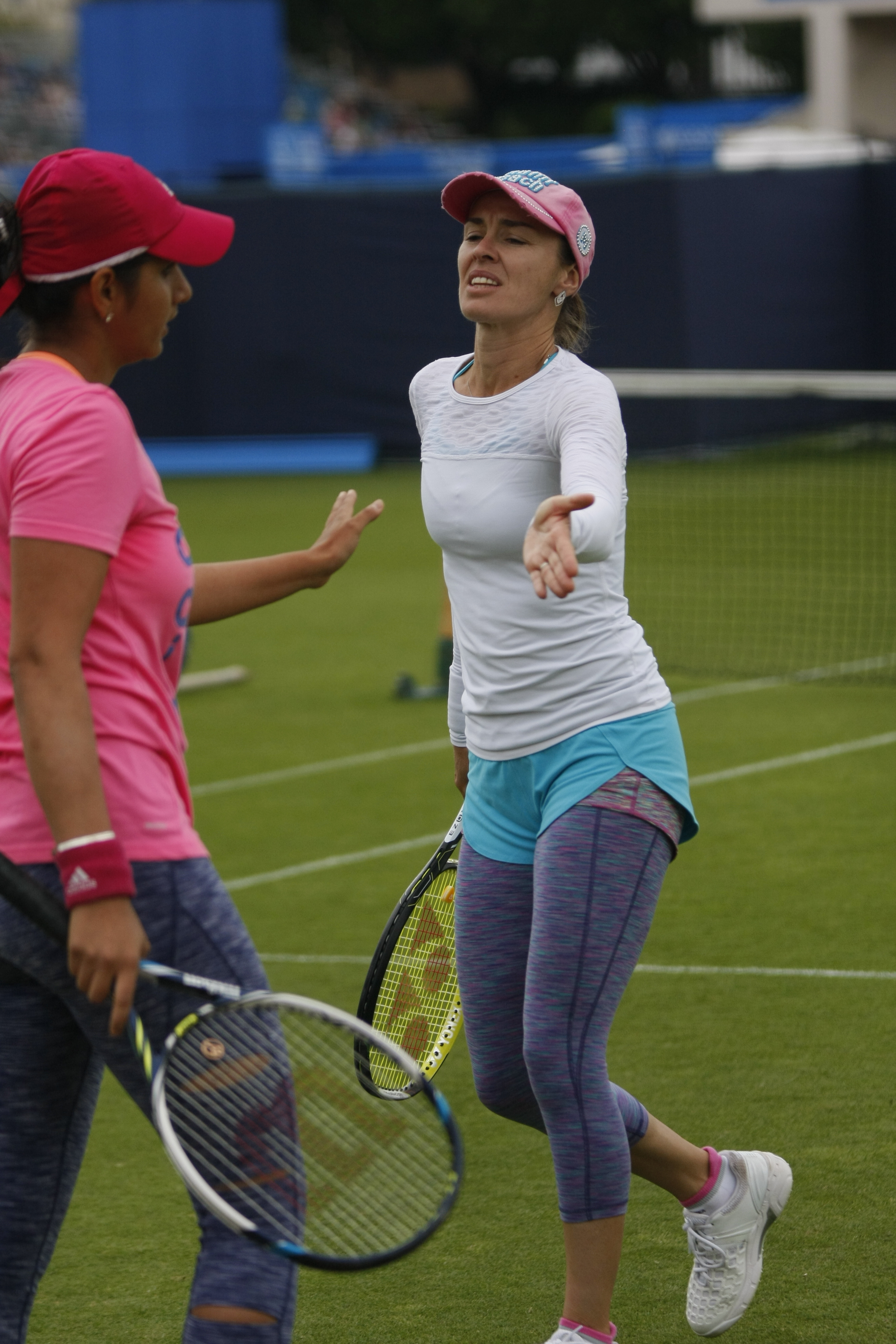 Aegon International Tennis, Devonshire Park, Eastbourne June 2015